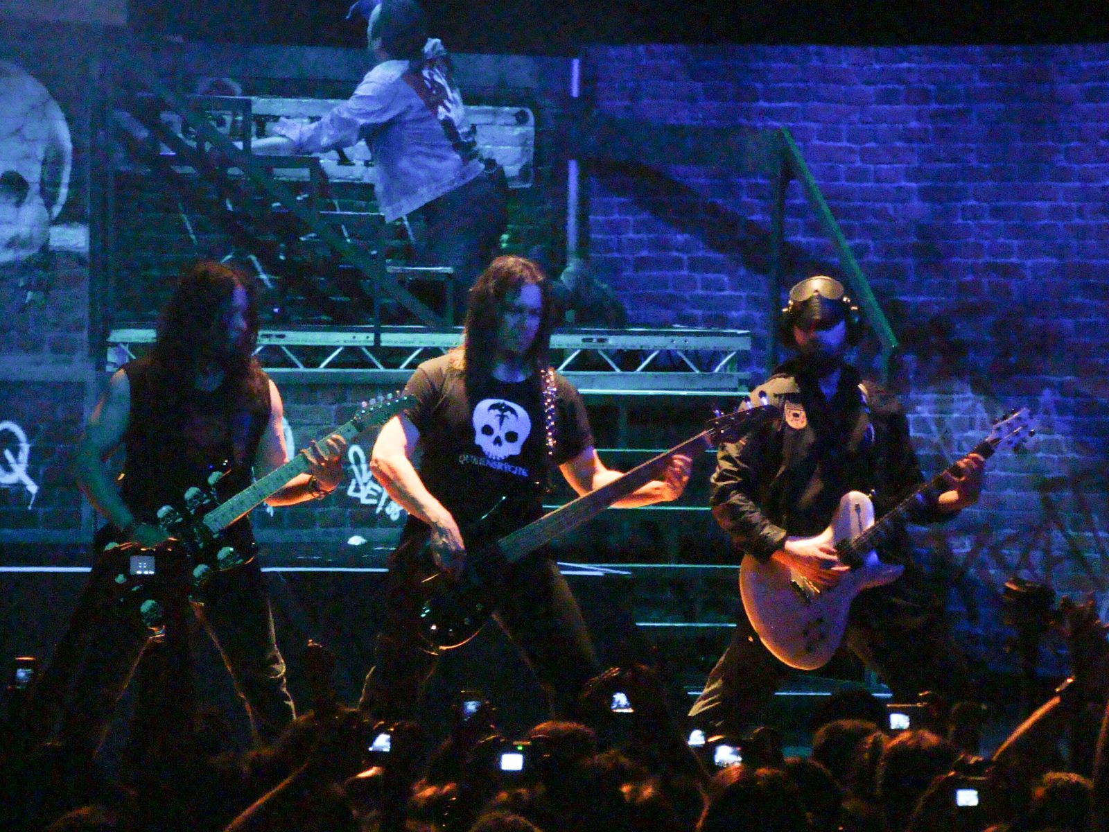 Performing on the Mindcrime I / II tour